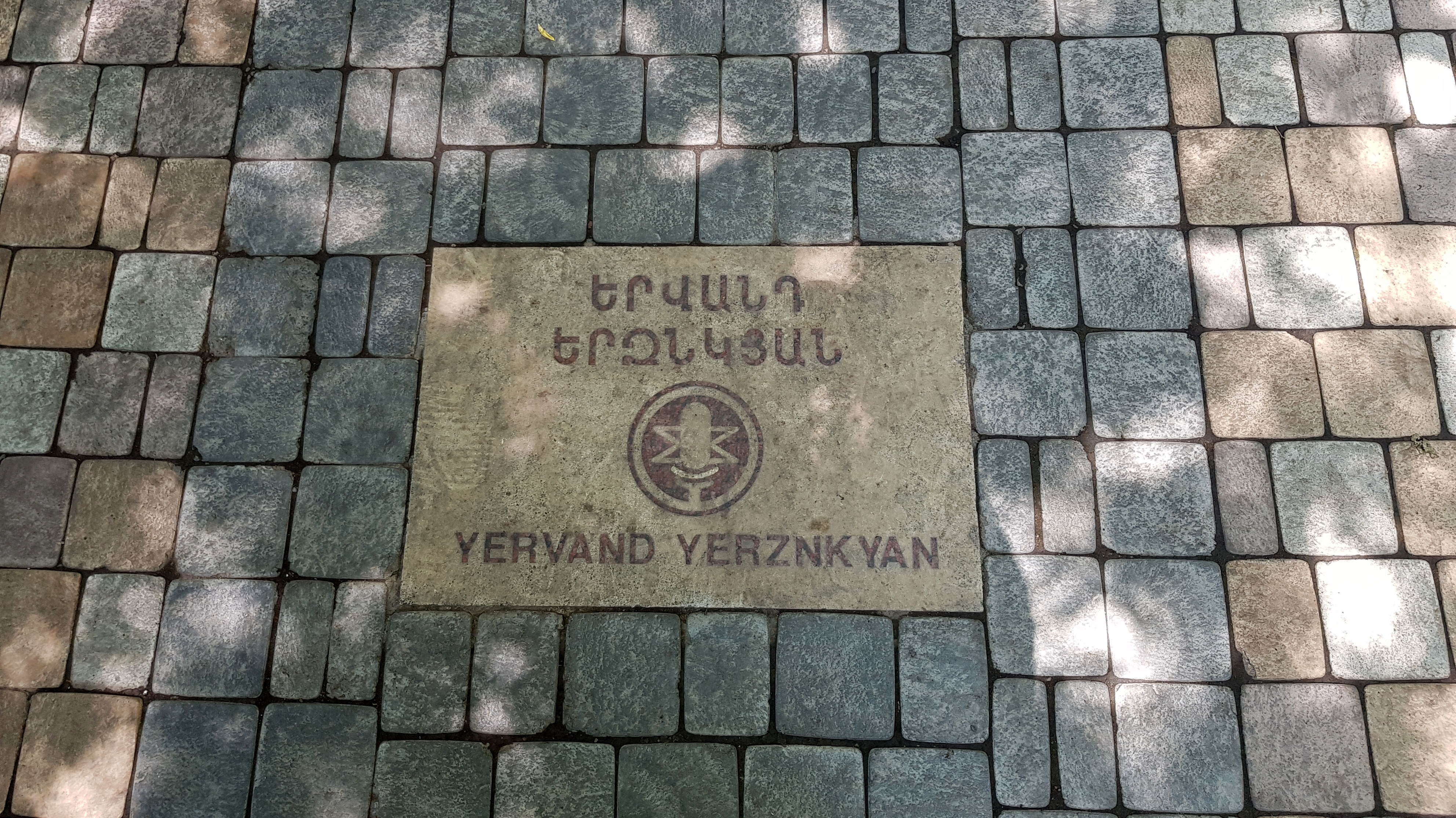 Alley of Devotees, Yerevan